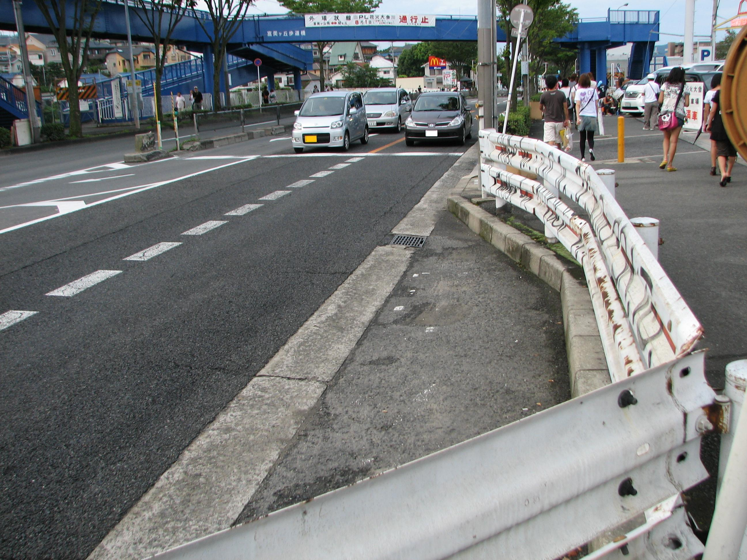 Hook turn space (Tondabayashi, Osaka, Japan)